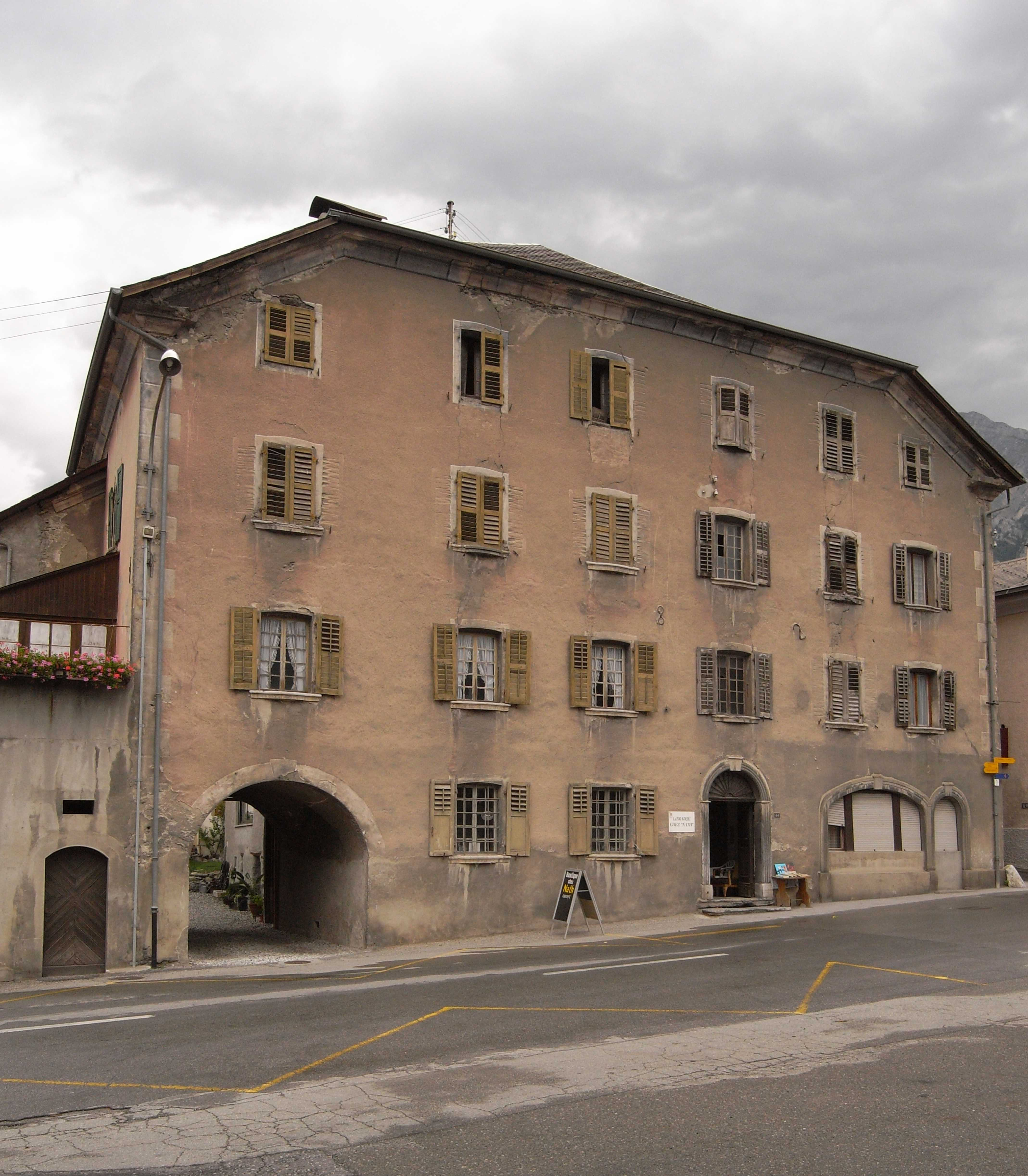 old building of Saint-Pierre-de-Clages (Canton Valais, Switzerland)